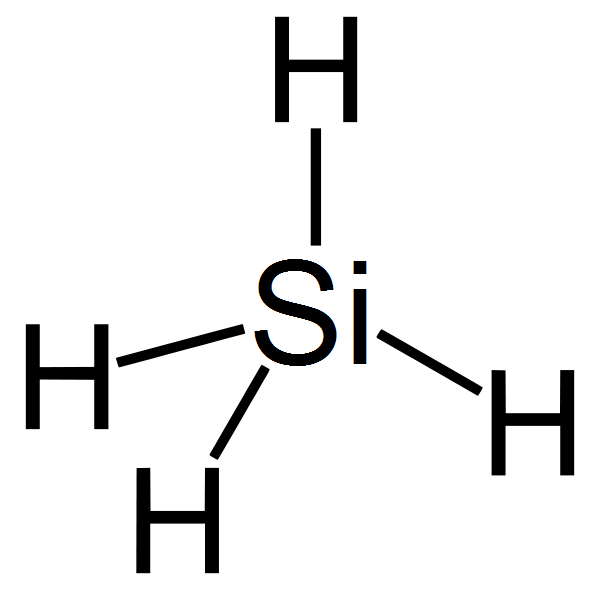 Chemical structure of silane (SiH4)